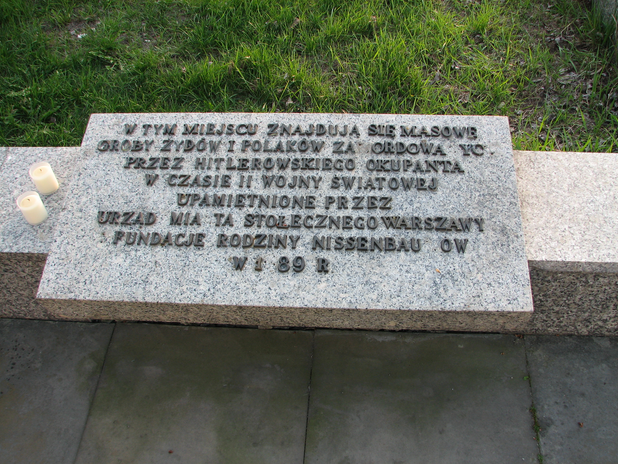 Monument of Jews and Poles Common Martyrdom in Warsaw, Gibalskiego street 21